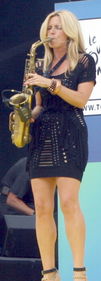 Candy Dulfer at the team presentation of the 2010 Tour de France in Rotterdam